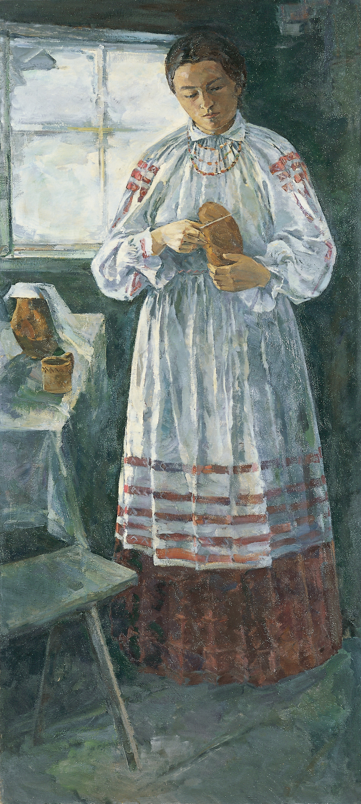 "A bright day"